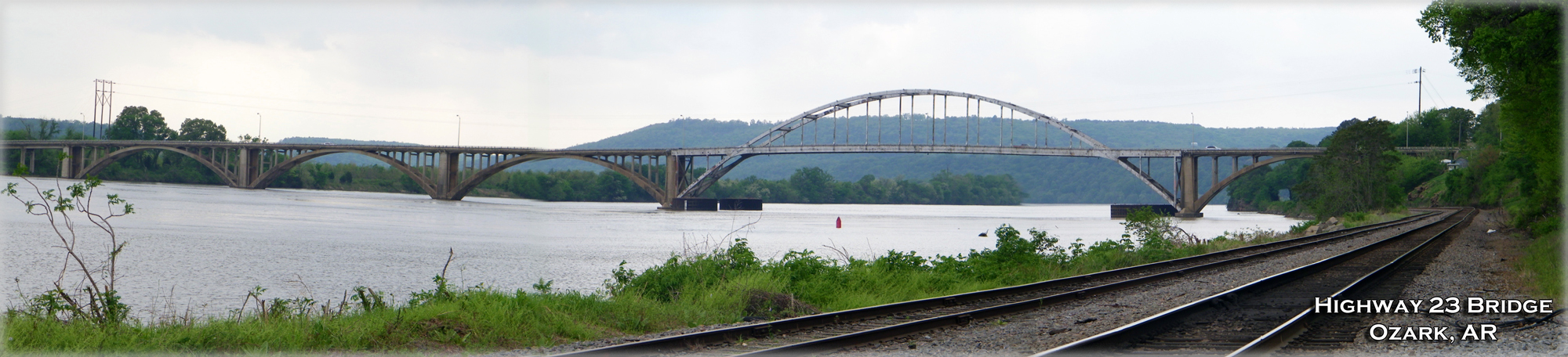 Panoramic view of the Highway 23 Bridge over the Arkansas River in Ozark, AR. Large version